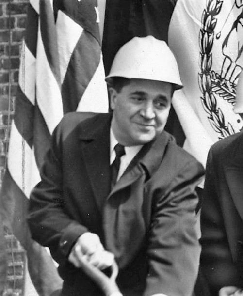 Cropped version of focusing on Bronx Borough President Joseph F. Periconi in Hunts Point in 1962